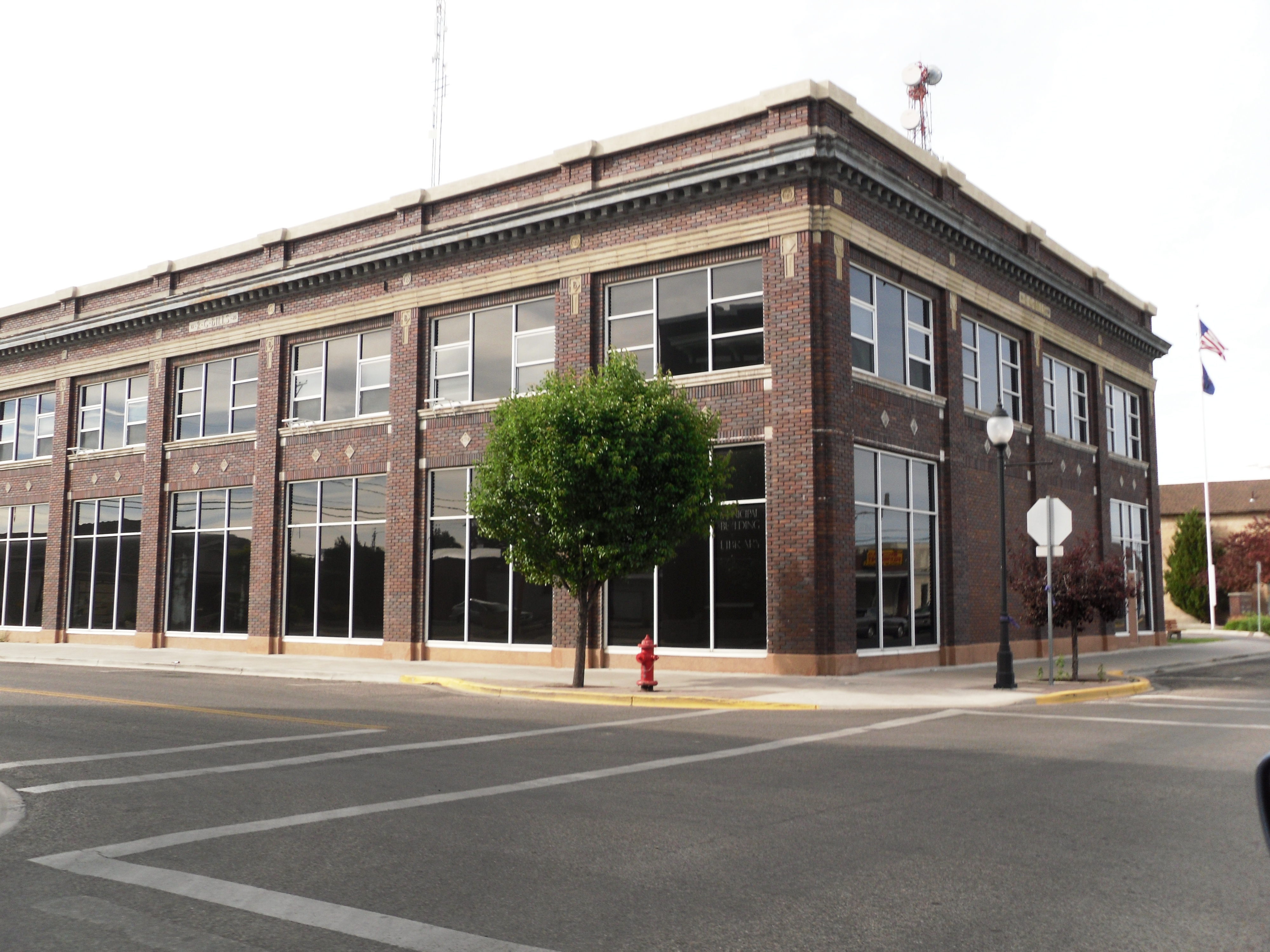 Blackfoot, Idaho